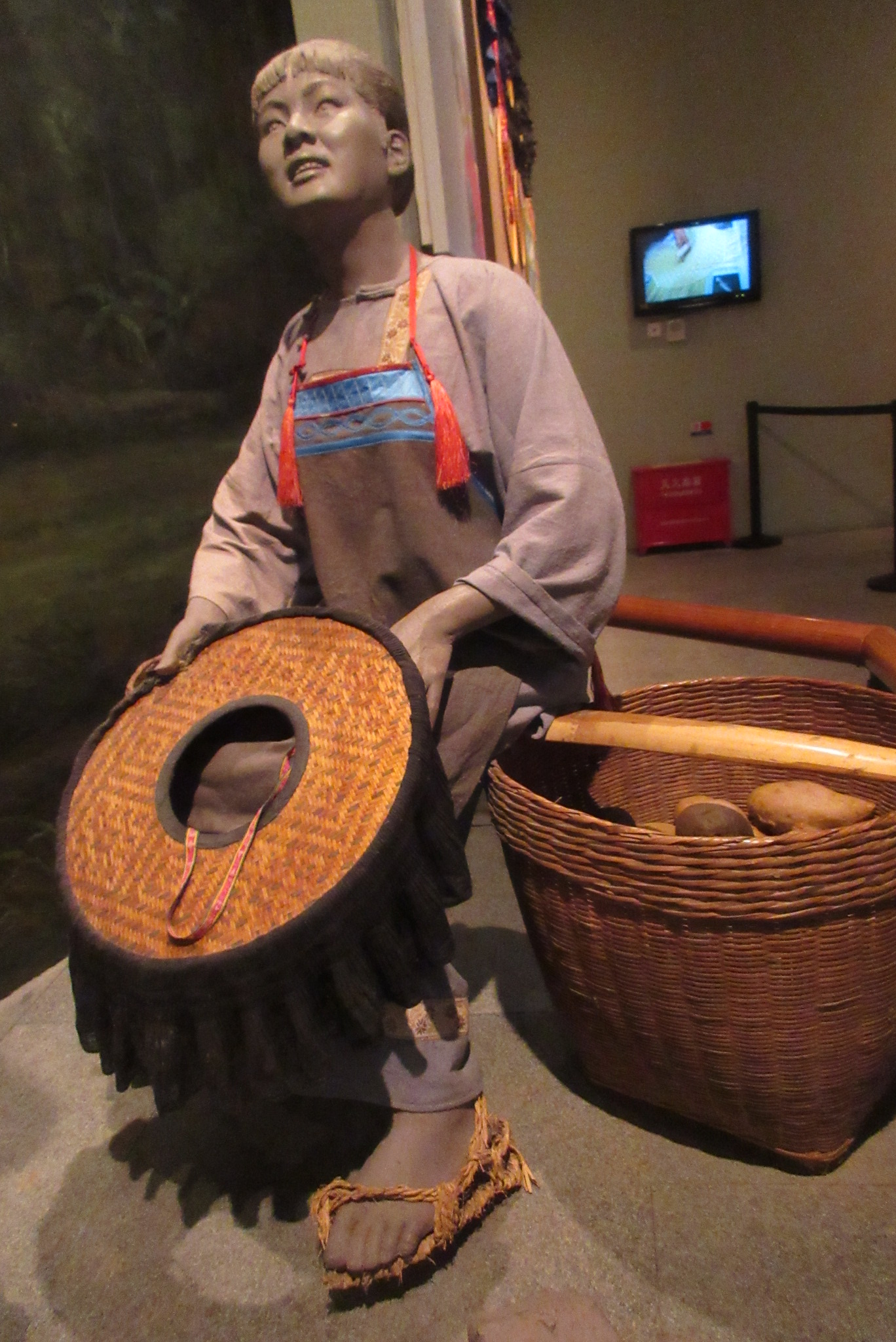 SZ 深圳博物館 Shenzhen Museum 深圳民俗展廳 Folk Cuture Exhibition Hall female woman villager in cotton clothing Sept 2017 IX1